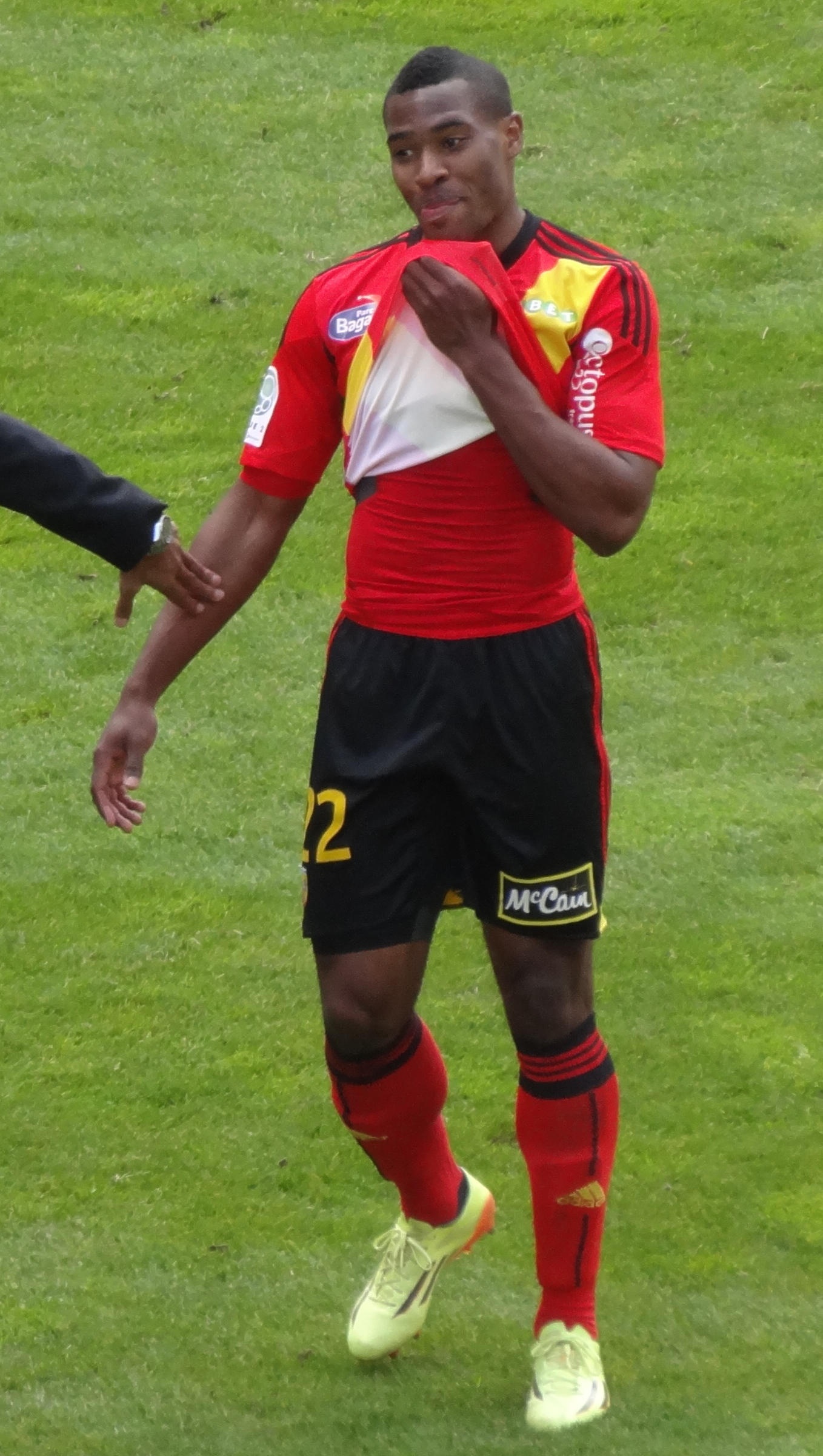 Loïck Landre (RC Lens)